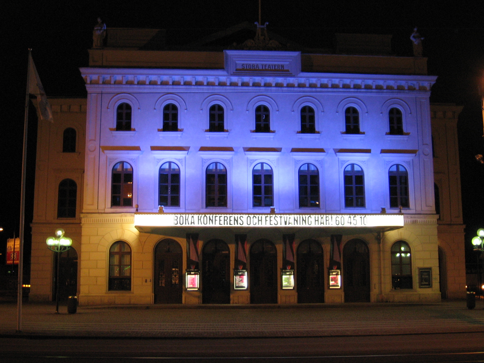 The old oprahouse in gothenburg, Sweden